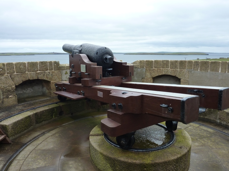 Hackness Martello Tower and Battery, South Walls, Orkney, Scotland. Cannon on Hackness Martello Tower.